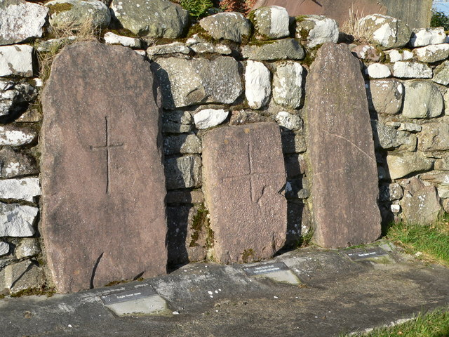 Carrowntemple Cross Slabs.